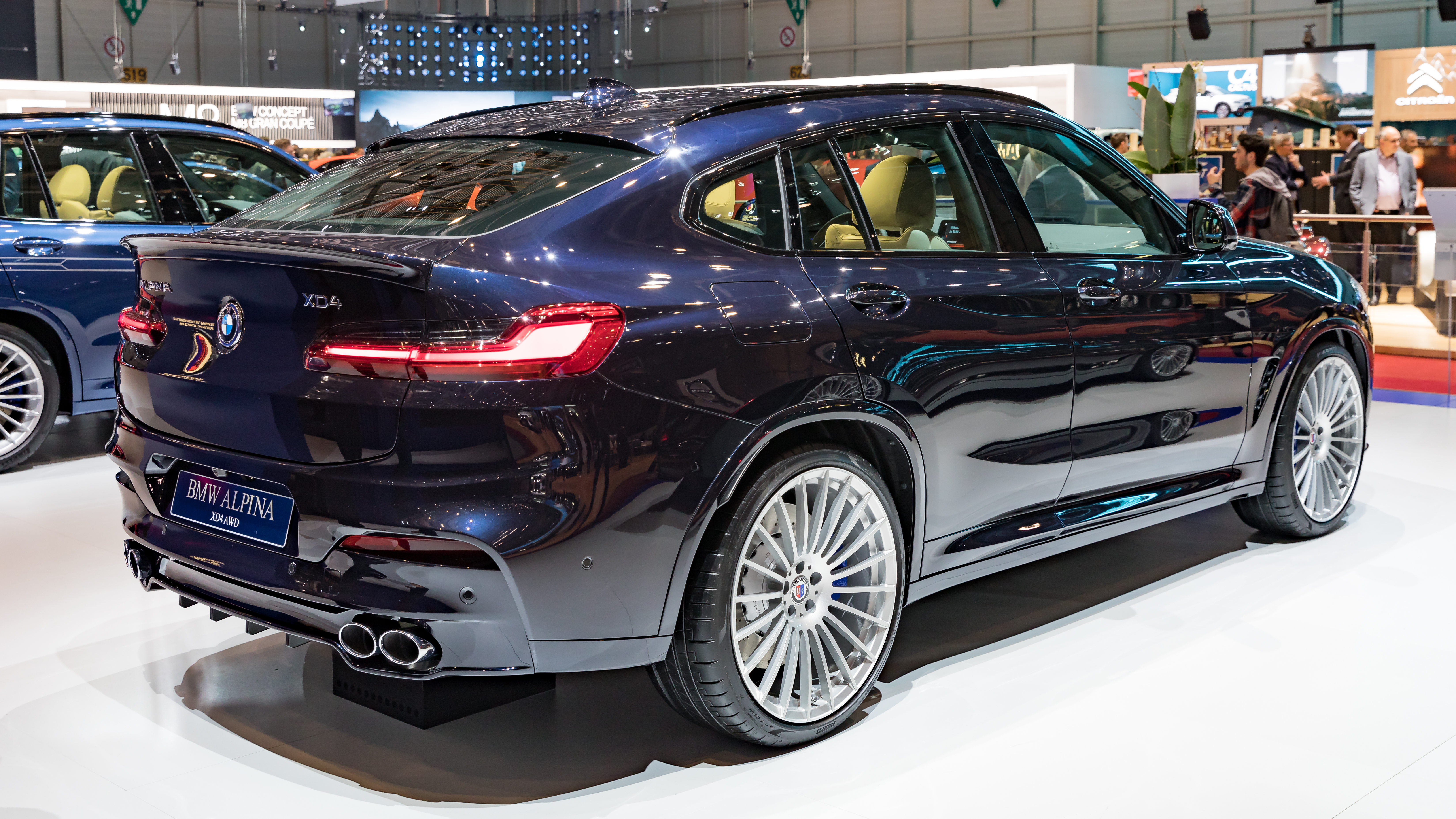 Geneva International Motor Show 2018